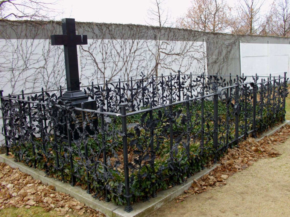 Grave site von Hülsen-Haeseler